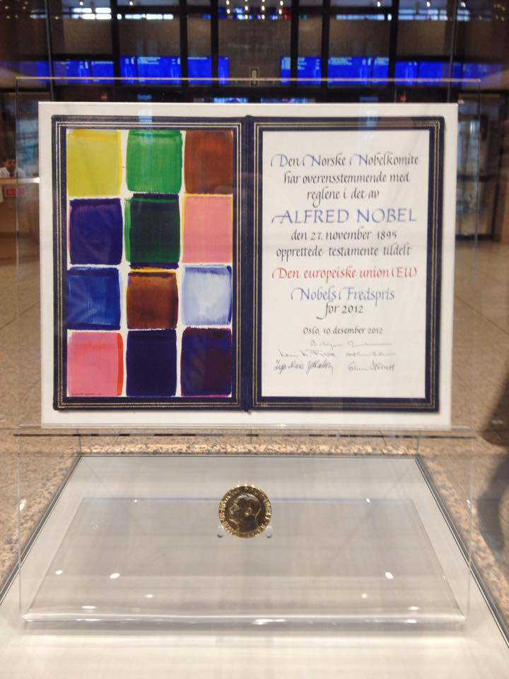 Nobel Peace Prize of the European Union (2012)